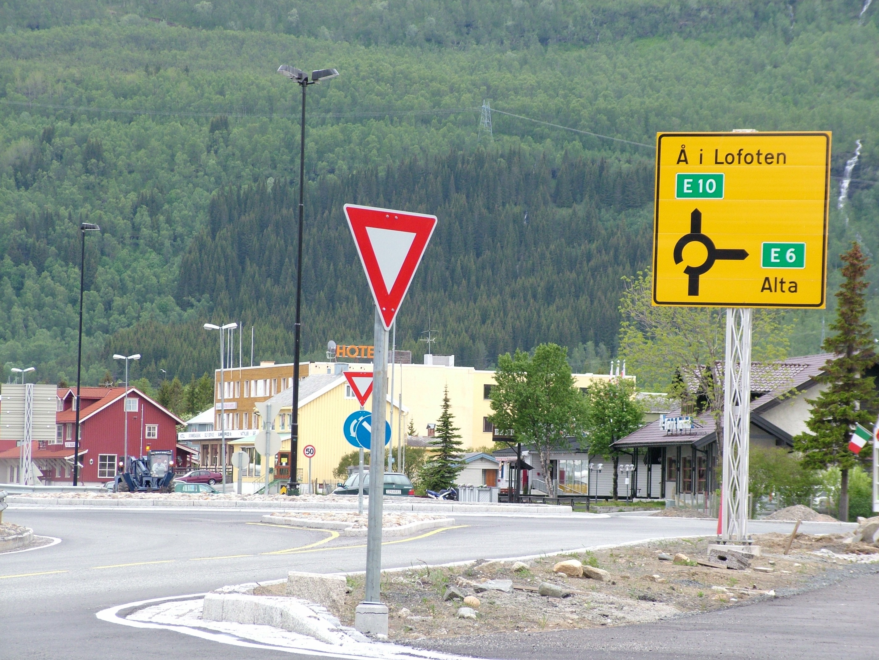 Roundabout junction of the E6 and E10 roads at Bjerkvik in Narvik municipality, Northern Norway.